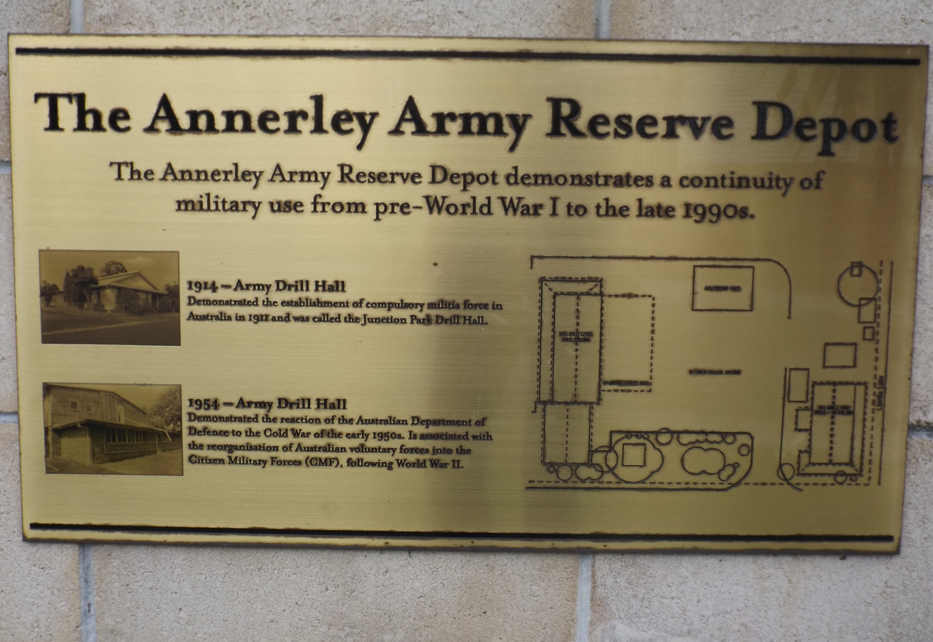 Photo of the plaque at the Annerley Army Reserve Depot in Annerley, Brisbane, Queensland, Australia.